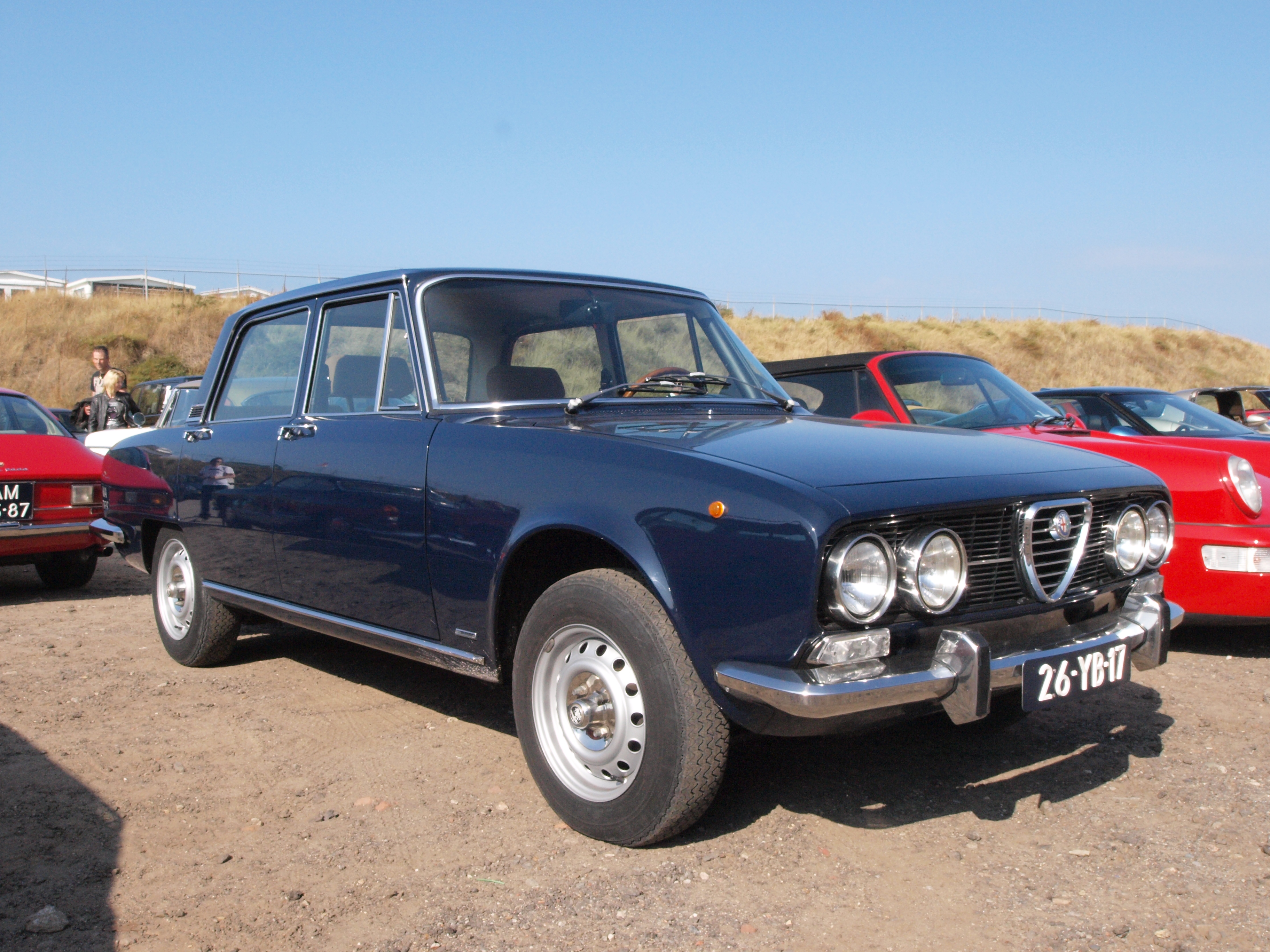 Photographed at the Nationaal Oldtimer Festival Zandvoort 2009, The Netherlands. OLYMPUS DIGITAL CAMERA